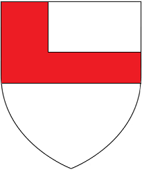 Arms of Woodville/Wydville: Argent, a fesse and a canton conjoined gules. These are the arms of Anthony Woodville, 2nd Earl Rivers, KG (c. 1440 – 25 June 1483), and are visible sculpted in stone within the western entrance of Carisbrooke Castle, Isle of Wight, which entrance was built by him. (Source: The Mirror of Literature, Amusement, and Instruction, Volume 28, p.42[1]))